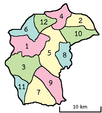 Subdistricts of Thawat Buri